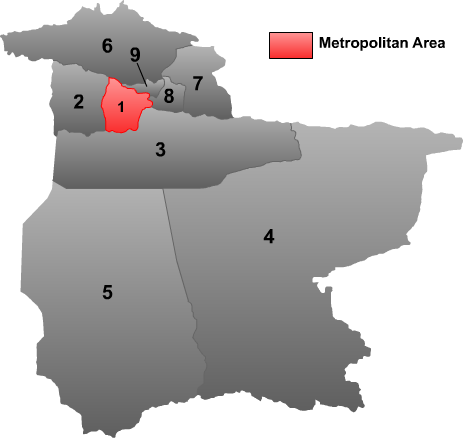 Map of Bayingholin prefecture in Xinjiang province